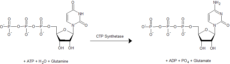 Created with chemsketch